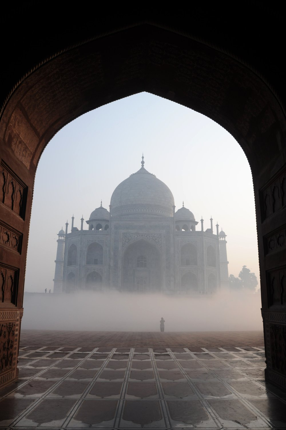 Taj Mahal through the early morning mist, Agra.